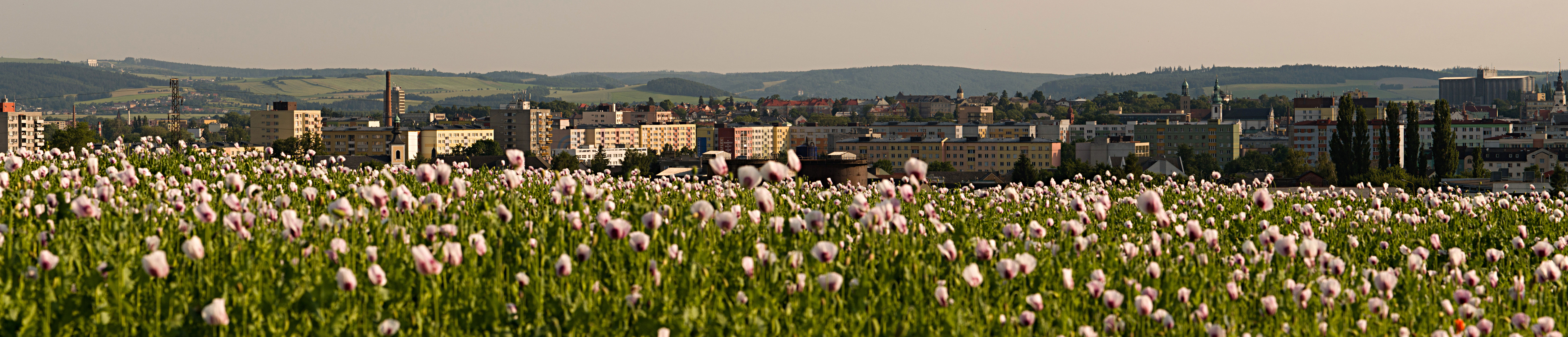 Opava Kateřinky - wiew from the North